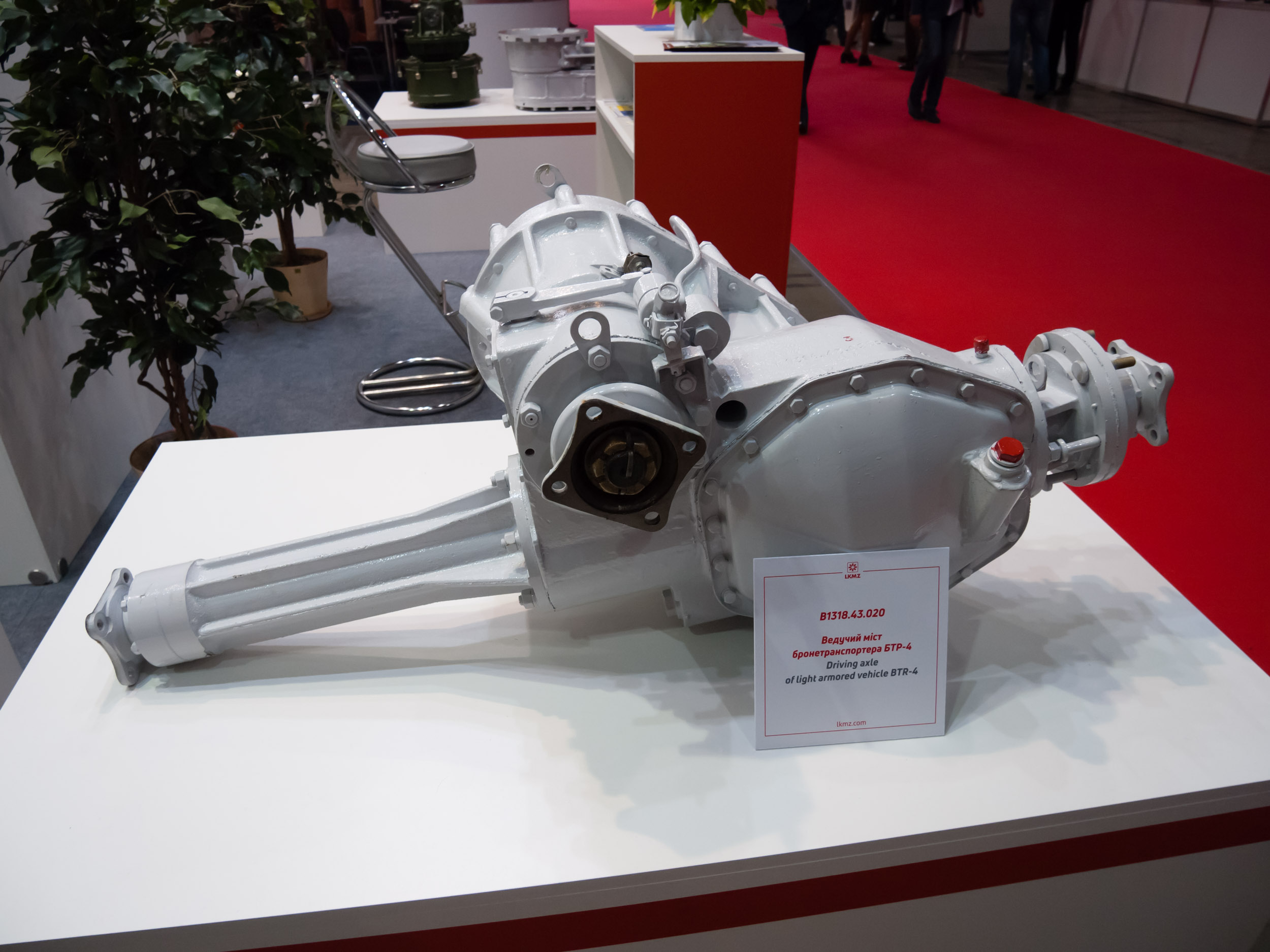 BTR-4 drivetrain by LKMZ, 'Zbroya ta Bezpeka' military fair, Kyiv, Ukraine, 2018